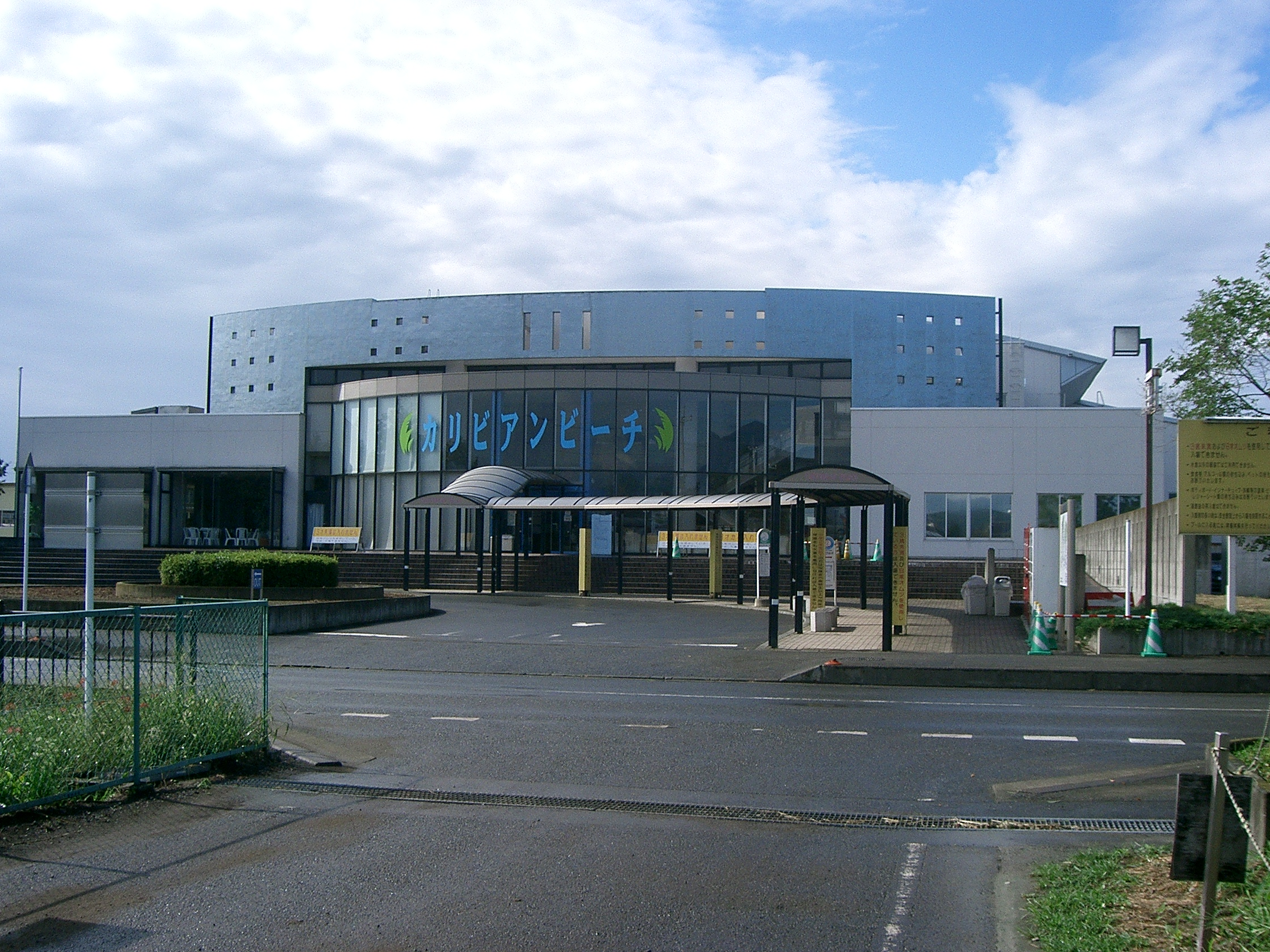 KIryu city Niisato heated pool "Caribbean Beach"